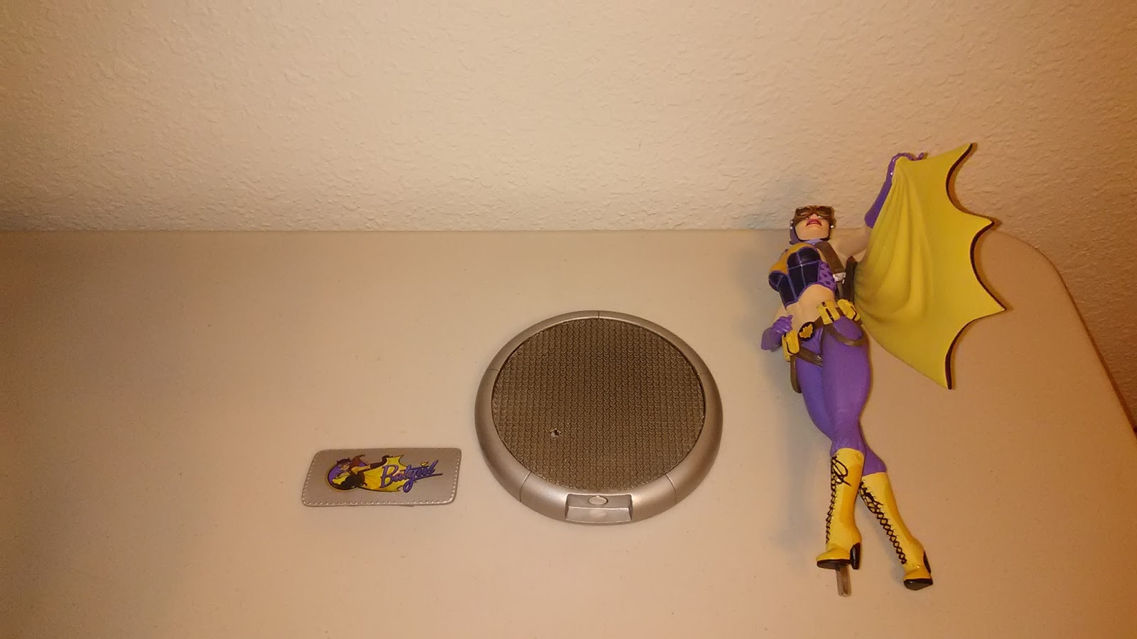 The second batch of this statue has three separate pieces that are assembled/held together with magnets.